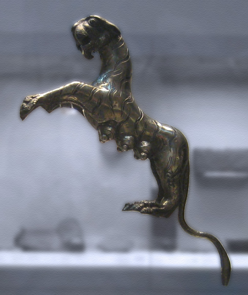 handle in form of a tigress from the Hoxne hoard.